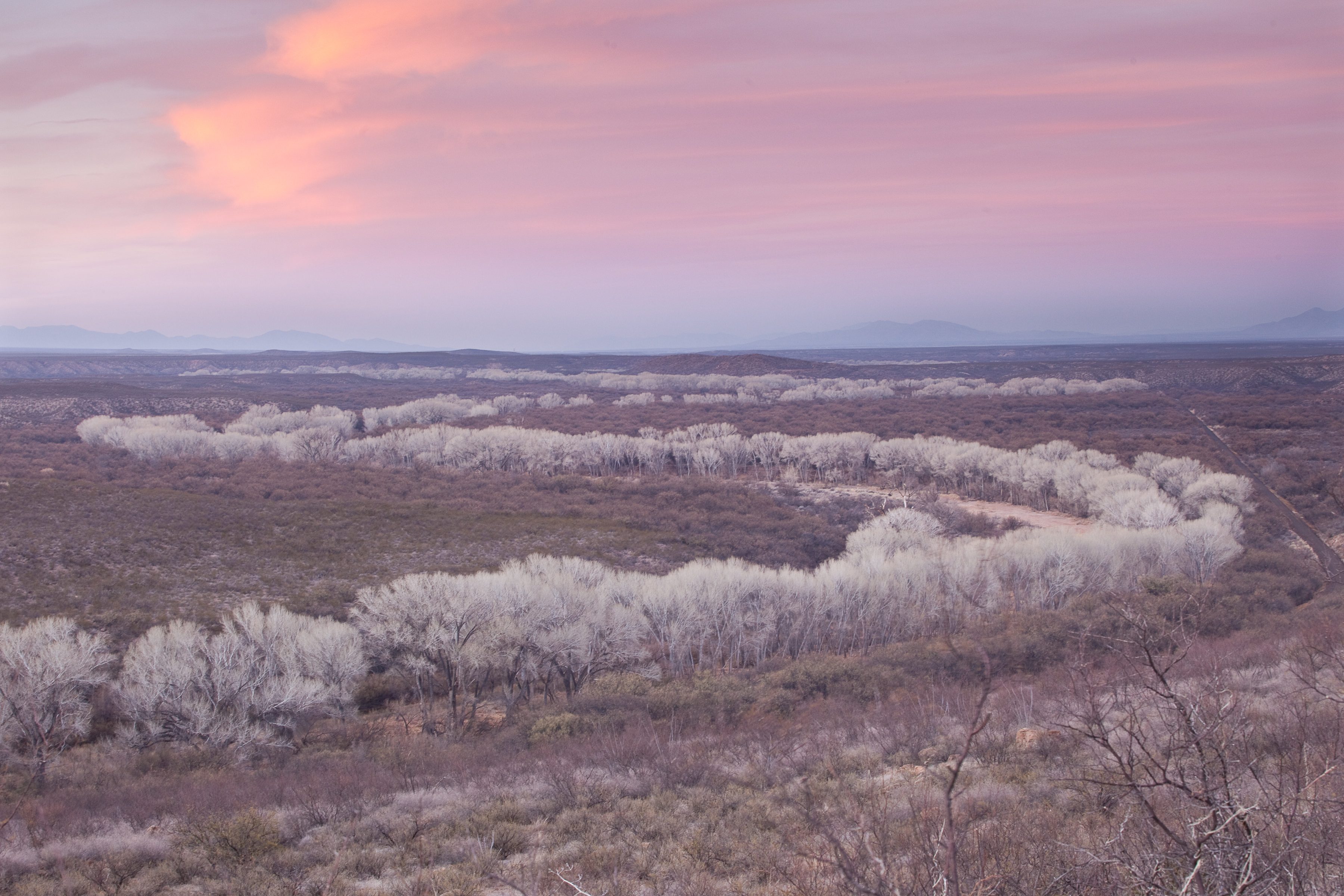 "The San Pedro Riparian National Conservation Area contains nearly 57,000 acres of public land in Cochise County, Arizona, between the international border and St. David, Arizona. The riparian area, where some 40 miles of the upper San Pedro River meanders, was designated by Congress as a Riparian National Conservation Area on November 18, 1988. The primary purpose for the special designation is to protect and enhance the desert riparian ecosystem, a rare remnant of what was once an extensive network of similar riparian systems throughout the American Southwest. One of the most important riparian areas in the United States, the San Pedro River runs through the Chihuahuan Desert and the Sonoran Desert in southeastern Arizona. The river’s stretch is home to more than 80 species of mammals, two native species and several introduced species of fish, more than 40 species of amphibians and reptiles, and 100 species of breeding birds. It also provides invaluable habitat for 250 species of migrant and wintering birds and contains archaeological sites representing the remains of human occupation from 13,000 years ago. The national conservation area features the intact remains of the Spanish Presidio Santa Cruz de Terrenante, a Spanish fortress marking the northern extension of New Spain into the New World. The Murray Springs Clovis Site is a significant archaeological resource that contains evidence of the earliest known people to inhabit North America. An interpretive trail leads visitors to the site. The area also features the ruins of the old mining town of Fairbank. The San Pedro House, a 1930’s-era converted ranch house, serves as a bookstore and visitor center." For more information, visti: Photos: Bob Wick, BLM California